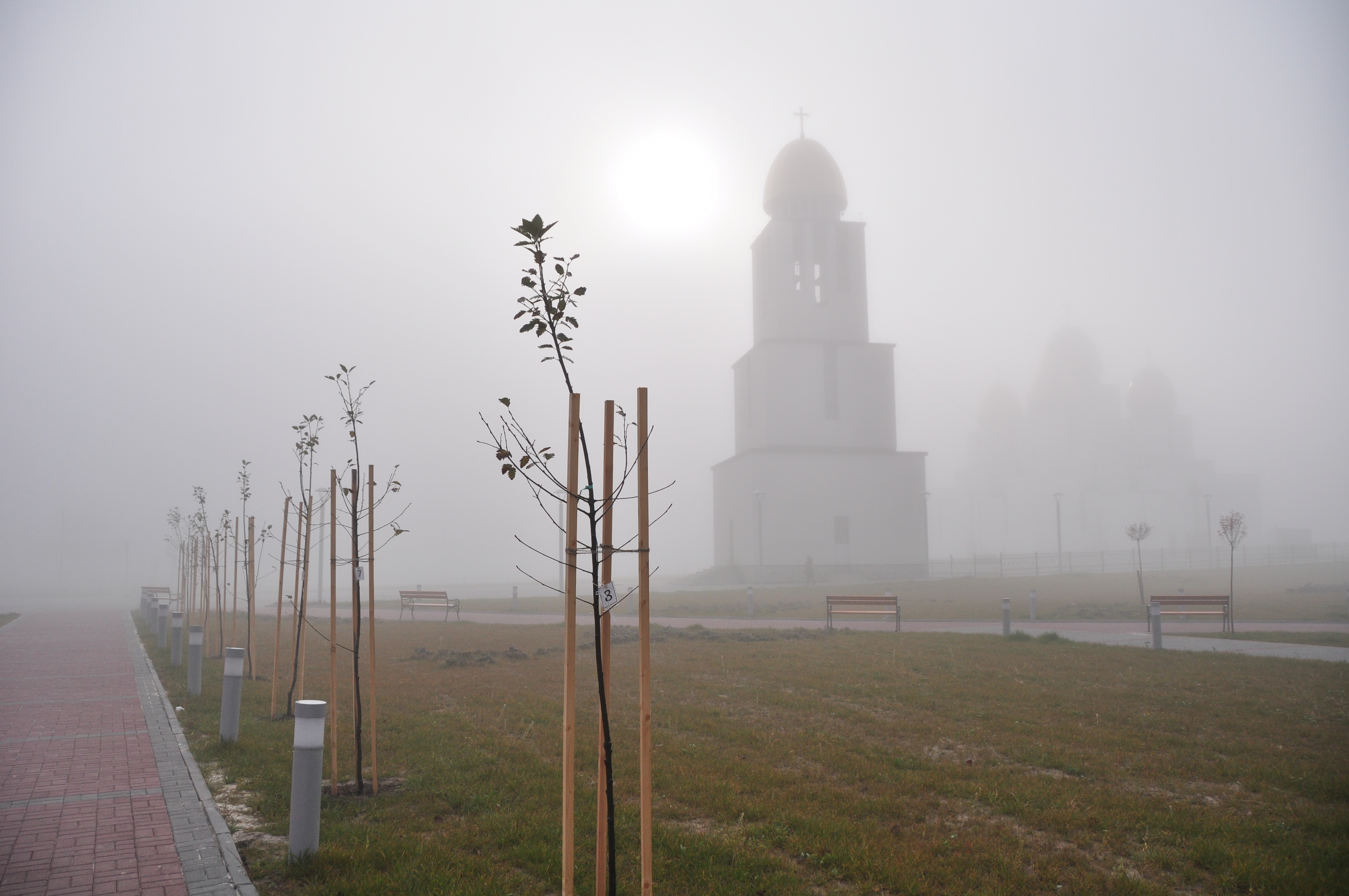 Young trees in the John Paul II Park in Sykhiv Rayon, Lviv